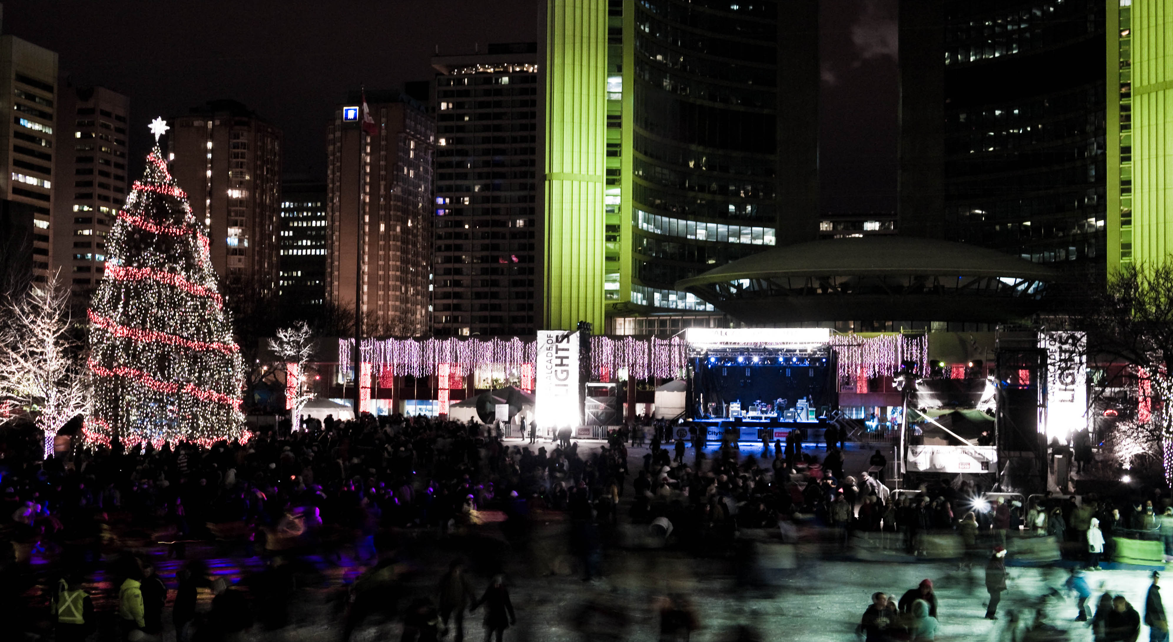 Cavalcade of Lights, Toronto, Ontario